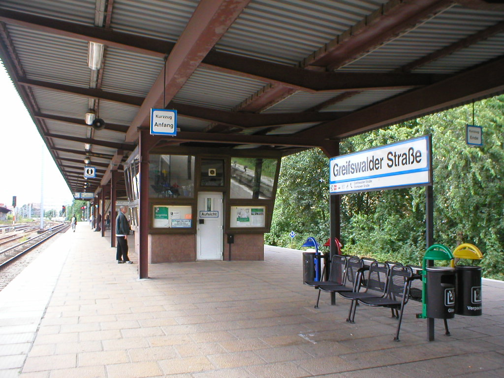 Platform of Berlin's suburban rail station Greifswalder Straße